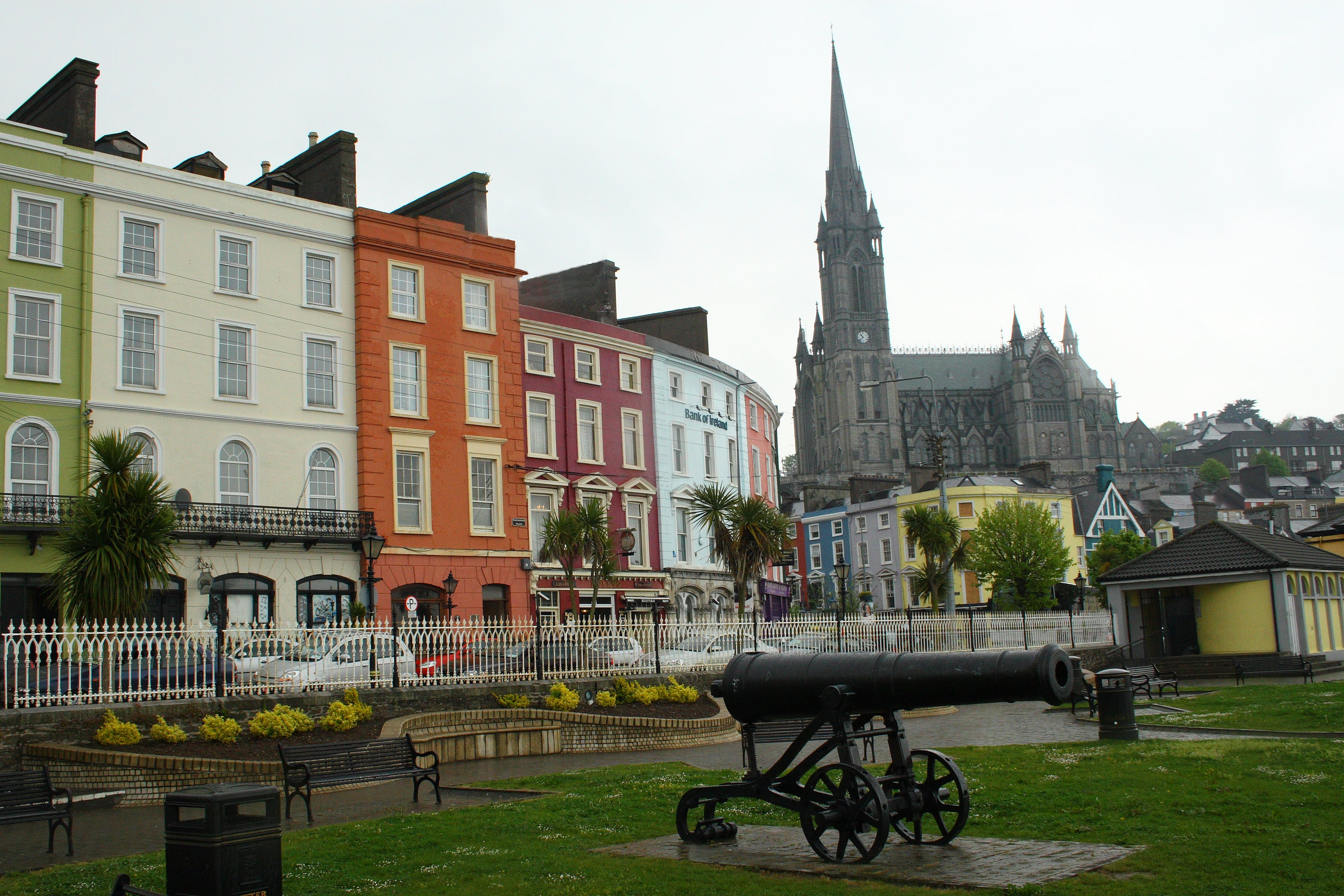 St Colman's Cathedral and Cobh, Ireland, Cobh